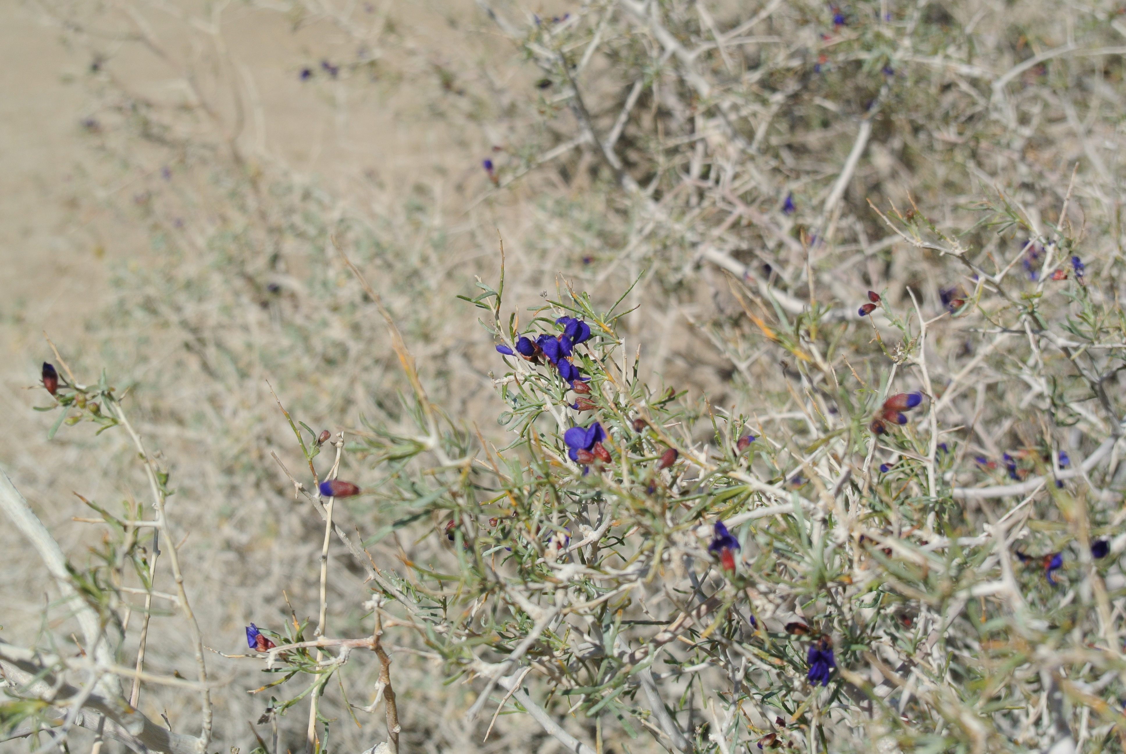 Psorothamnus spinosus flower in Anza-Borrego Desert State Park.